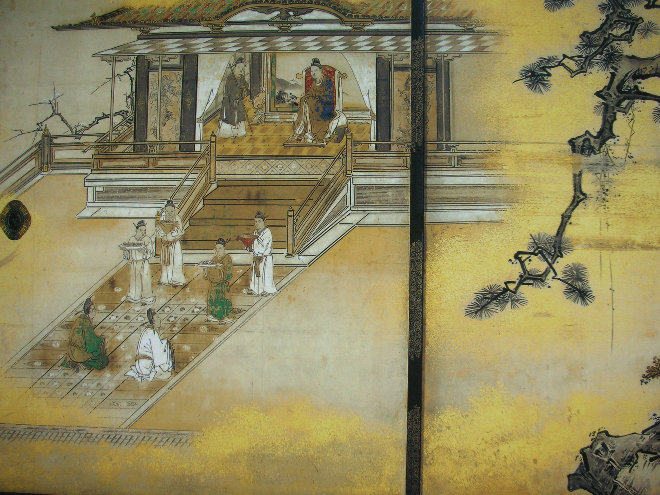 A Japanese painting from Nagoya Castle in Nagoya, Japan